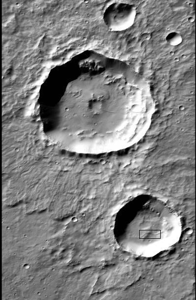 Ridge in a crater that may be an exmple of inverted terrain, as seen by CTX. Location is 27.6 S and 167 E.